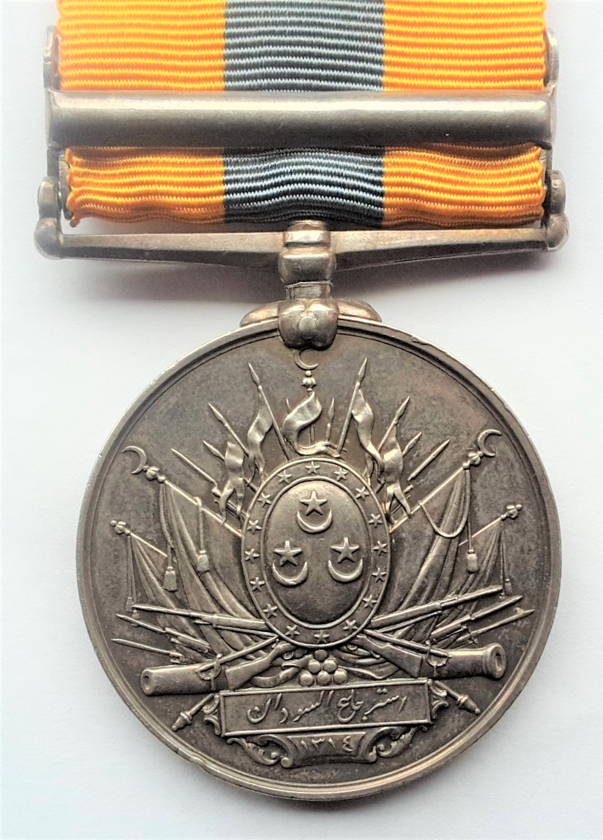 Campaign medal awarded by Egypt to those who served in the Egyptial and British armies at the battle of Omdurman